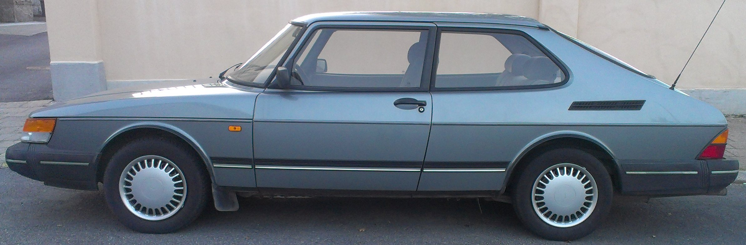 SAAB 900i left side view